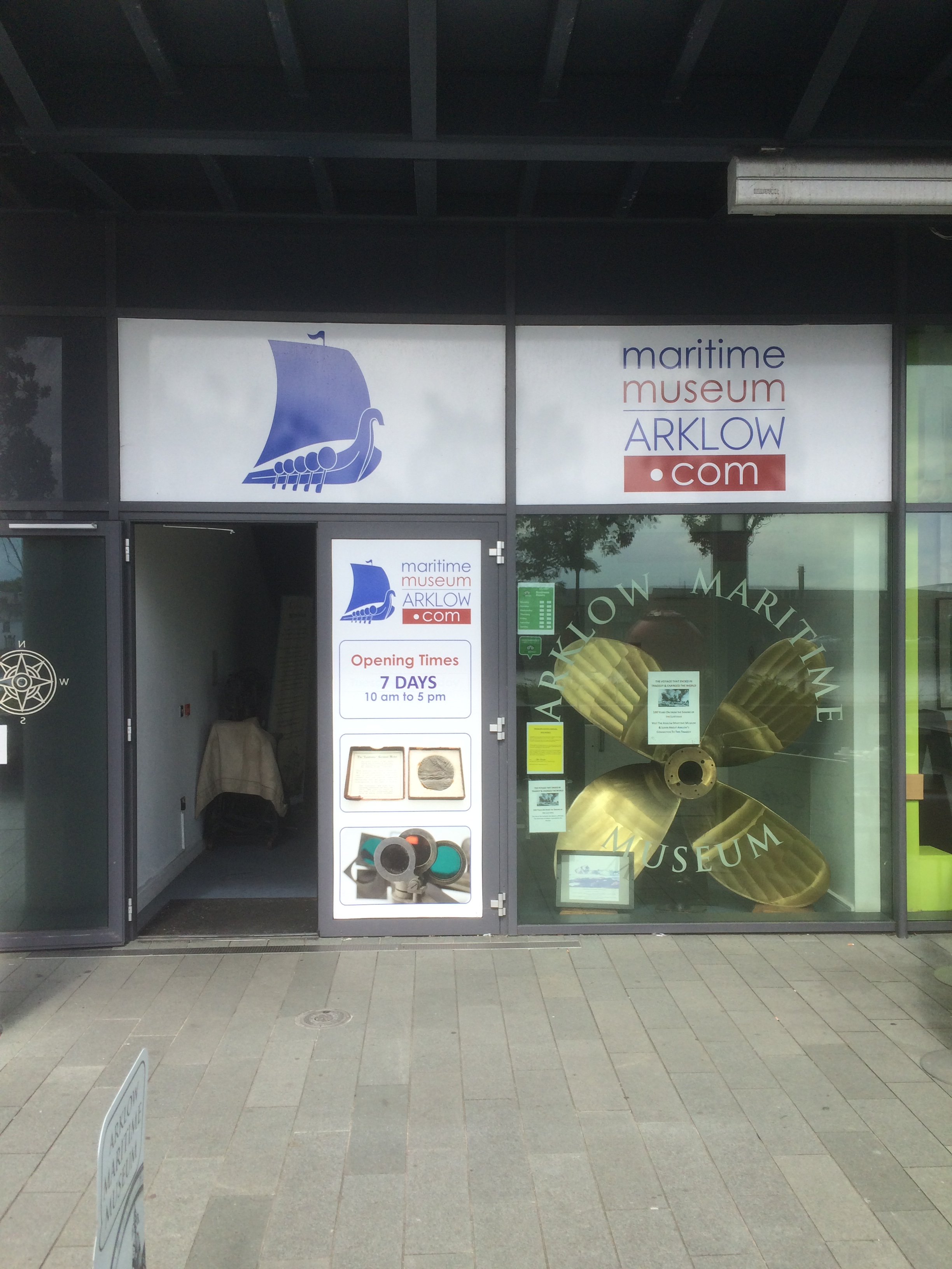 The outside of the Arklow Maritime Museum